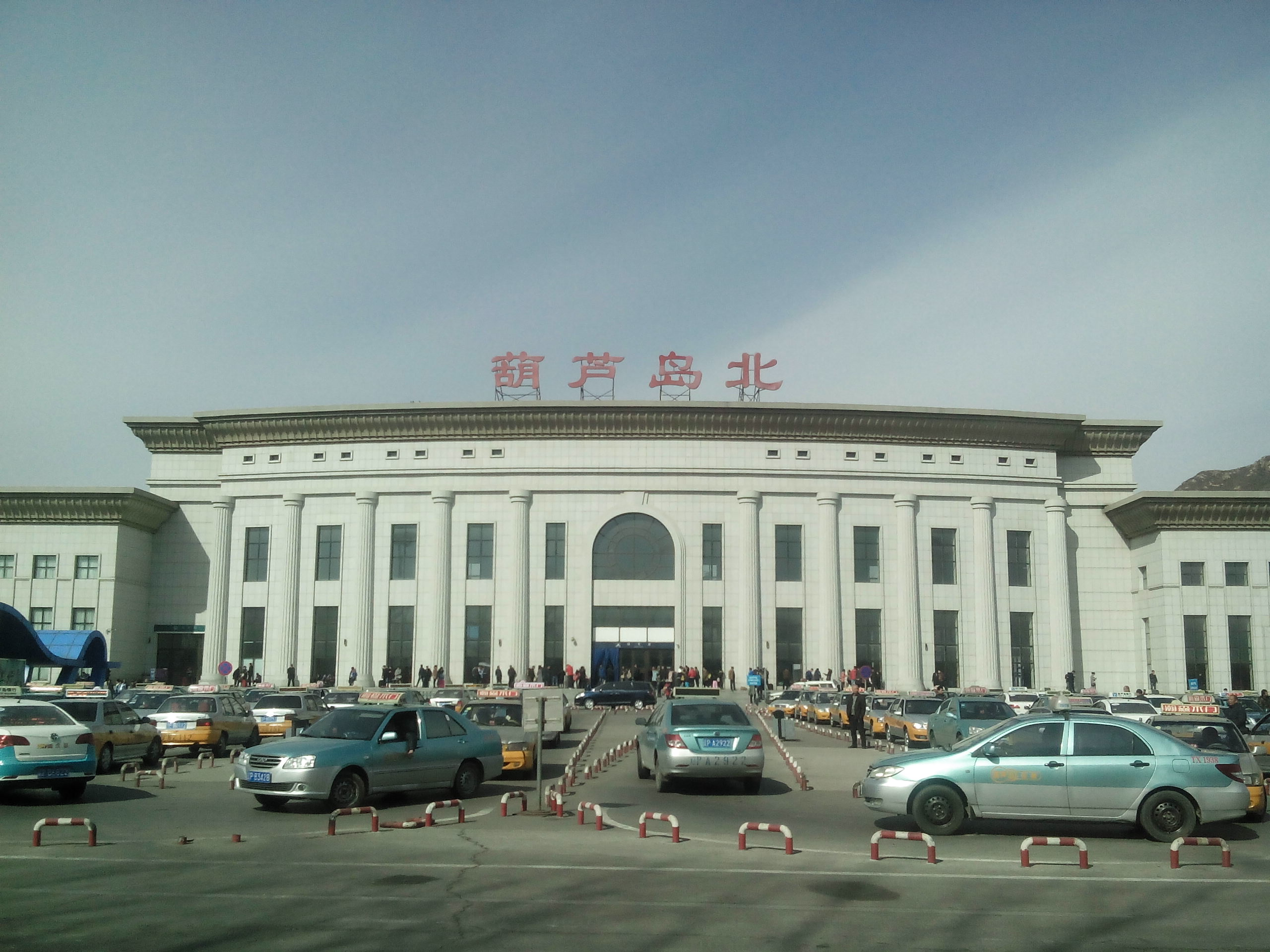 Huludao North Railway Station 中文（中国大陆）: 葫芦岛北站